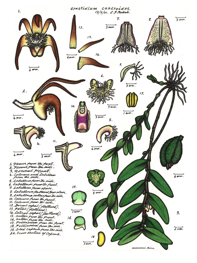 This image was provided by Lewis Roberts, the artist who produced it